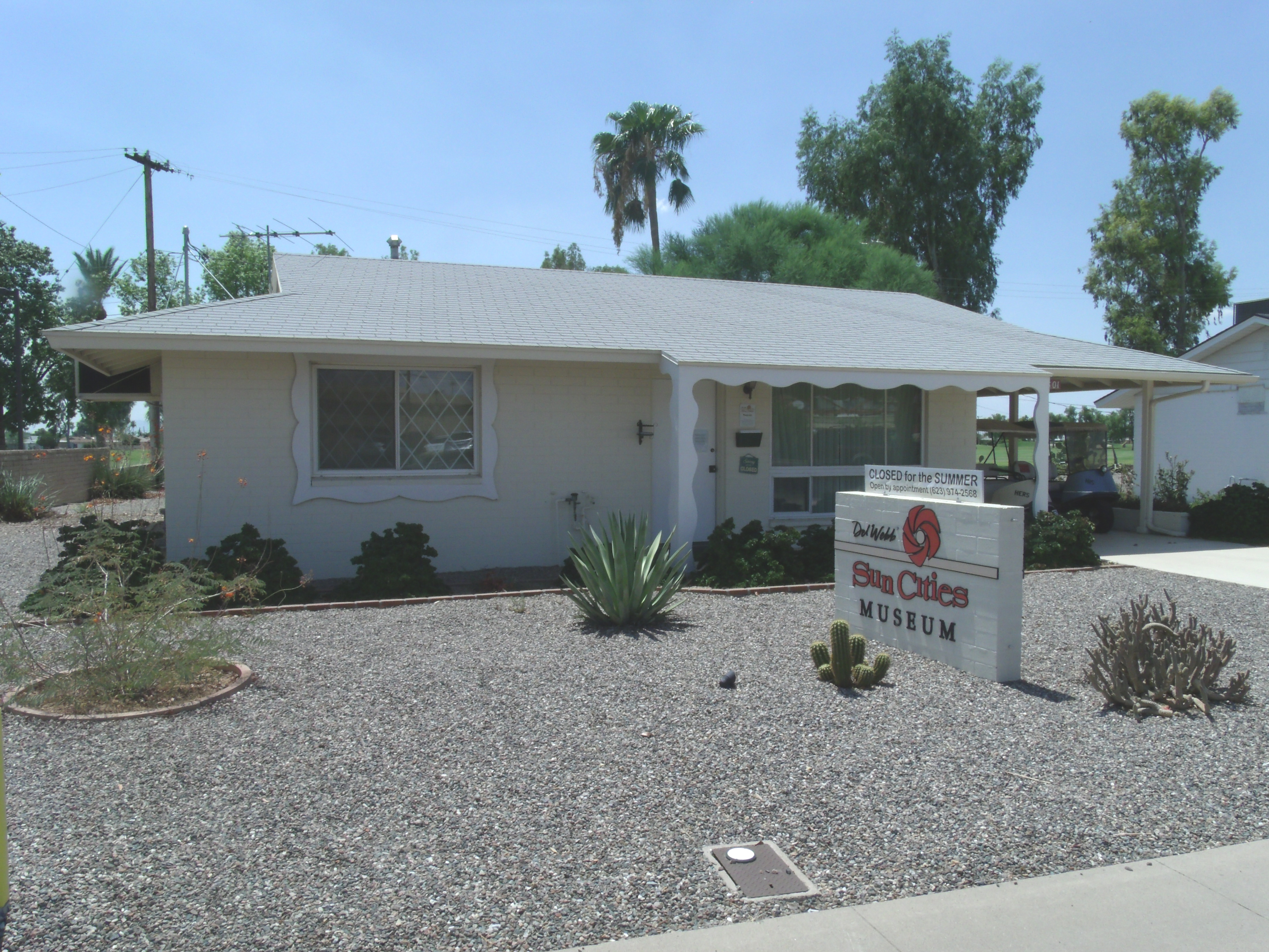 The Sun City DEVCO Model #1 a.k.a. “Del Webb Sun Cities Museum” is a white brick Bungalow built in 1959 and located at 10801 W. Oakmont Drive in Sun City, Arizona. It known as “The World’s First Retirement Community Museum”[1] . The building was listed in the National Register of Historic Places in February 20, 2015, reference #15000022.